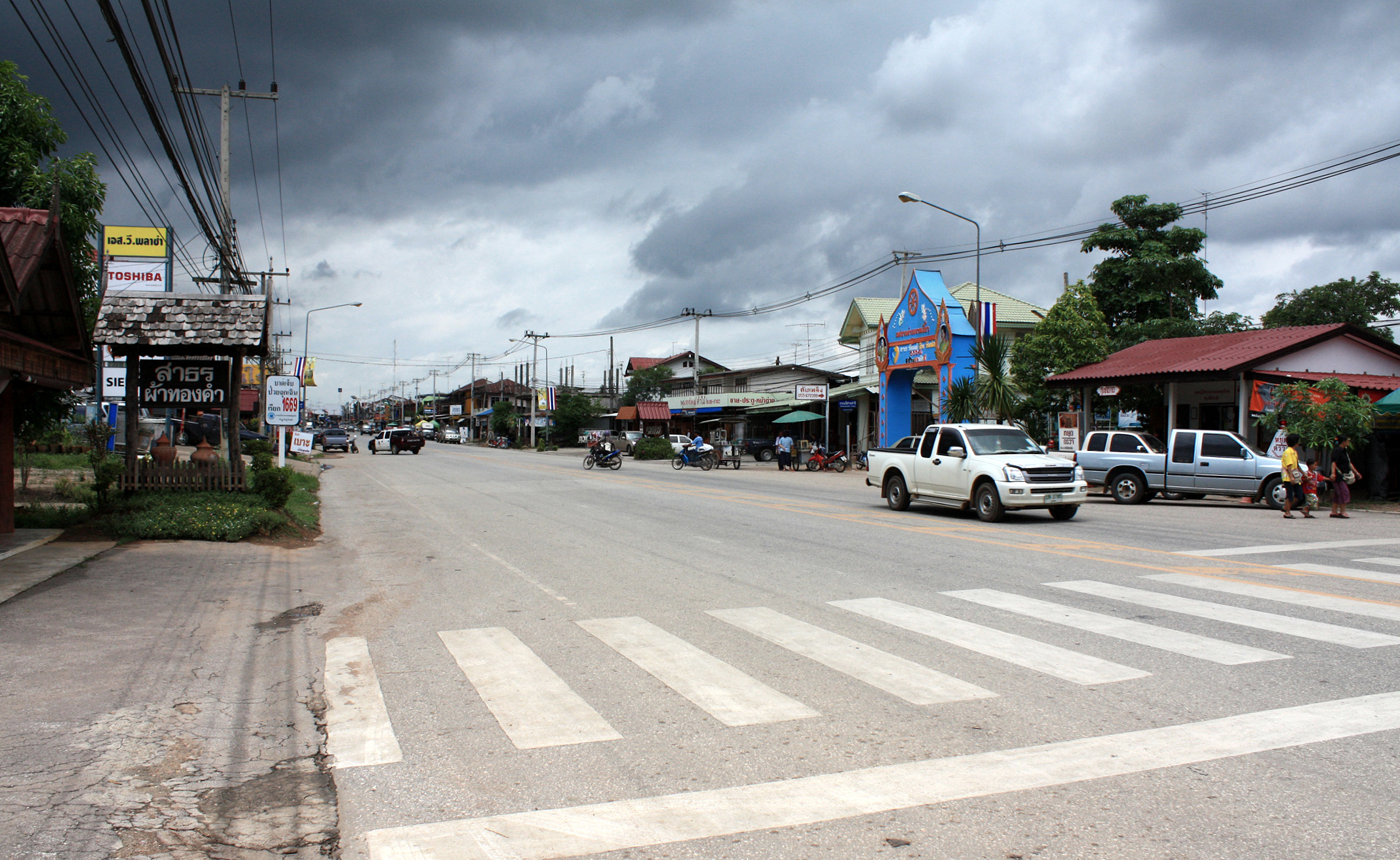 Highway 101 in Tambon Hat Siao, Amphoe Si Satchanalai, Sukhothai Province, northern Thailand